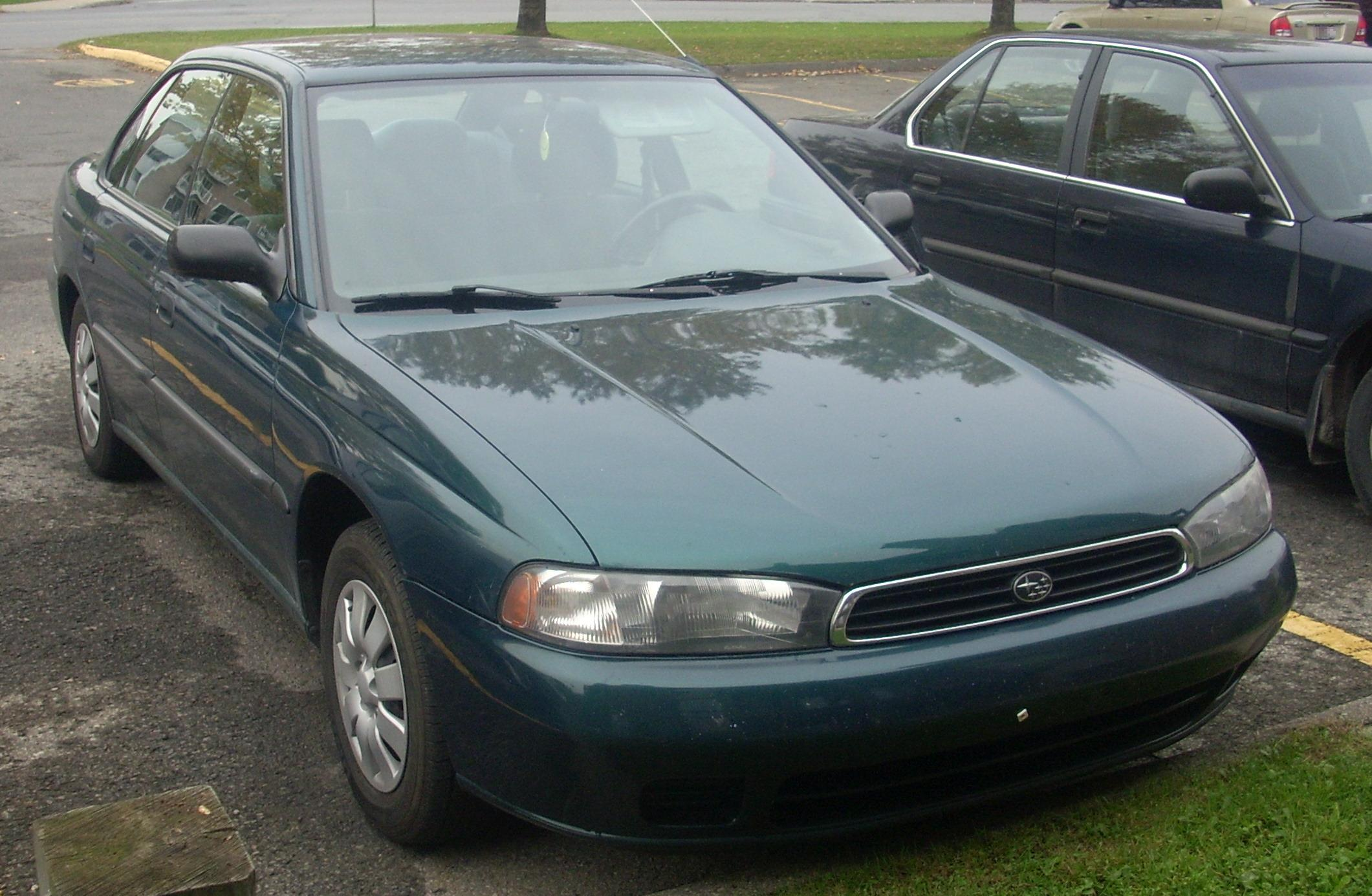 1995-1996 Subaru Legacy photographed in Vaudreuil-Dorion, Quebec, Canada.